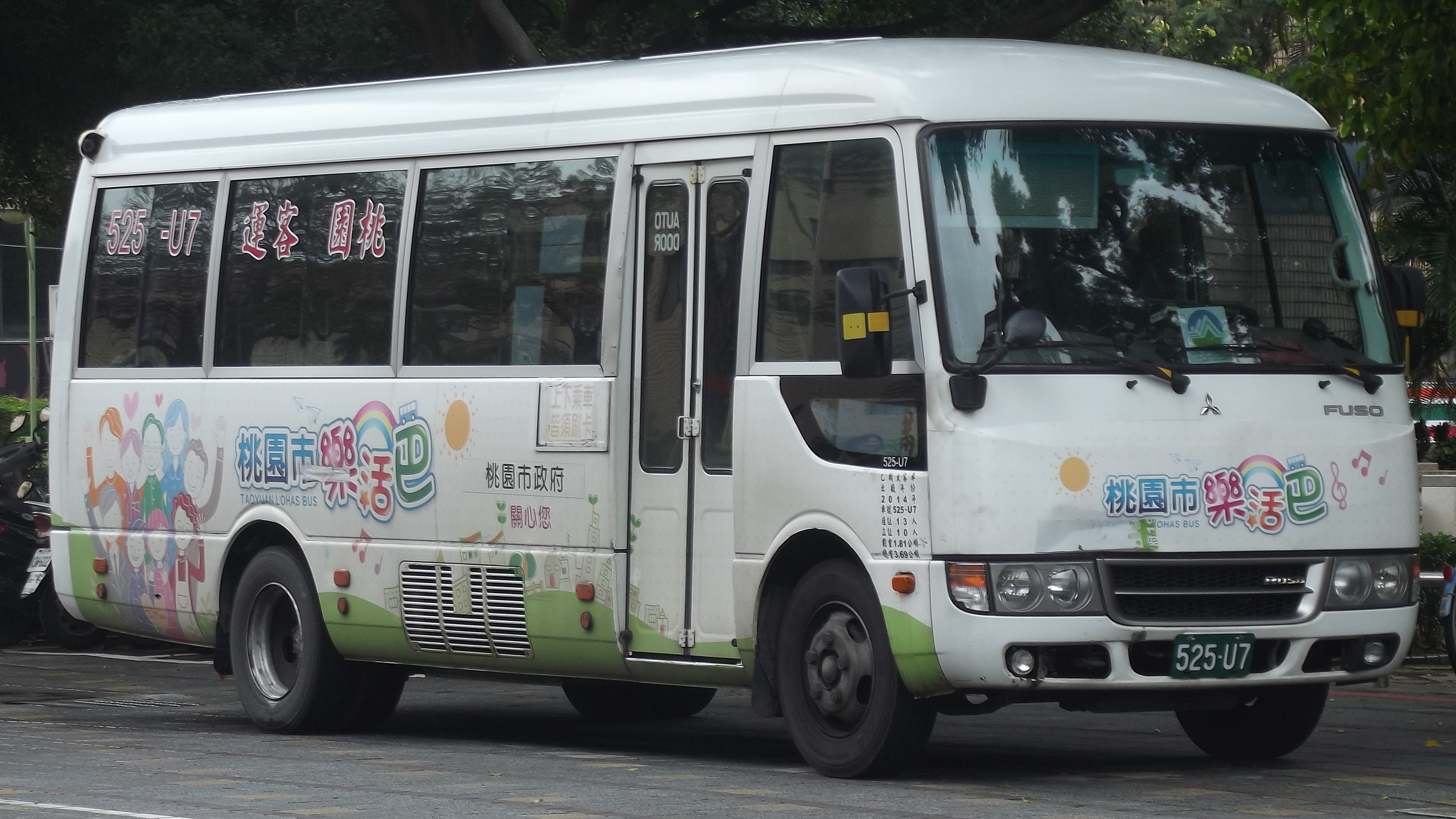 Taoyuan Bus Fuso Rosa 525-U7 with Full KV of Taoyuan City Lohas Bus.